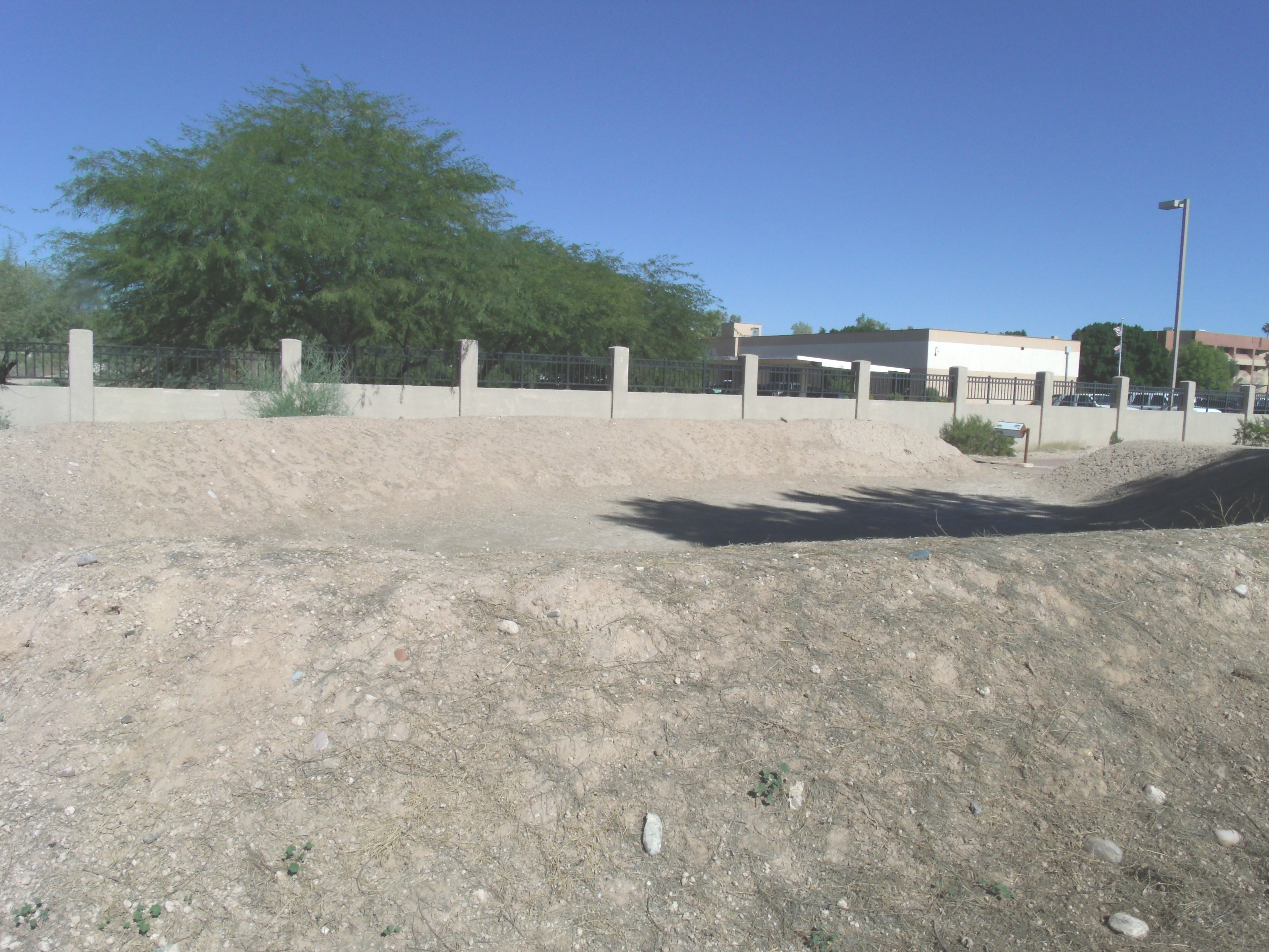 Replica of the Mesa Grande Hohokam Ballcourt . The ballcourt, which is located at 1000 N. Date St., is an open-air structure where the Hohokam played ballgames using a rubber ball made from a local plant. The Mesa Grande Cultural Park was listed in the National Register of Historic Places in November 21, 1978, reference number 78000549.